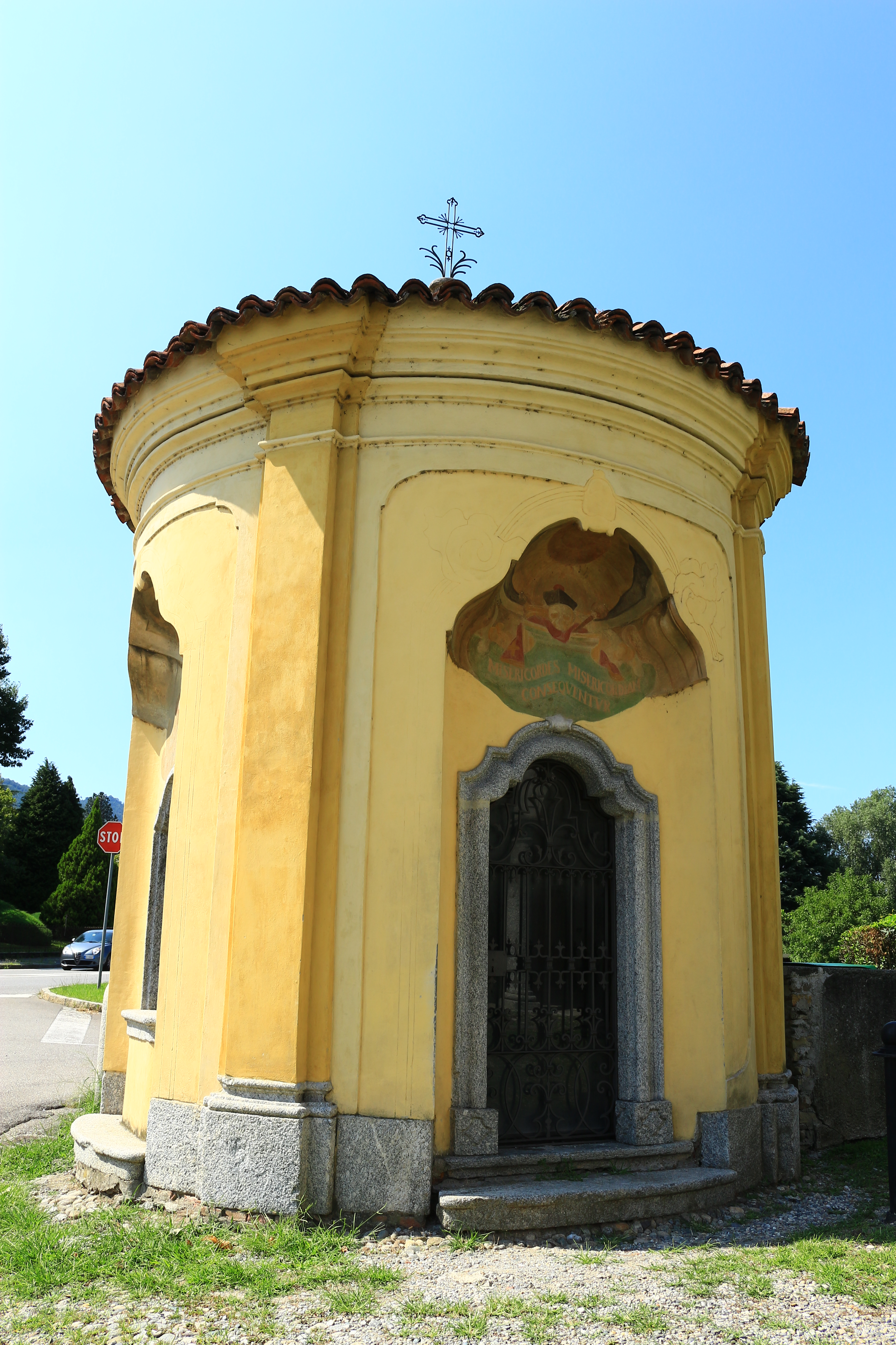 Chapel in Brivio (Italy) August 2018